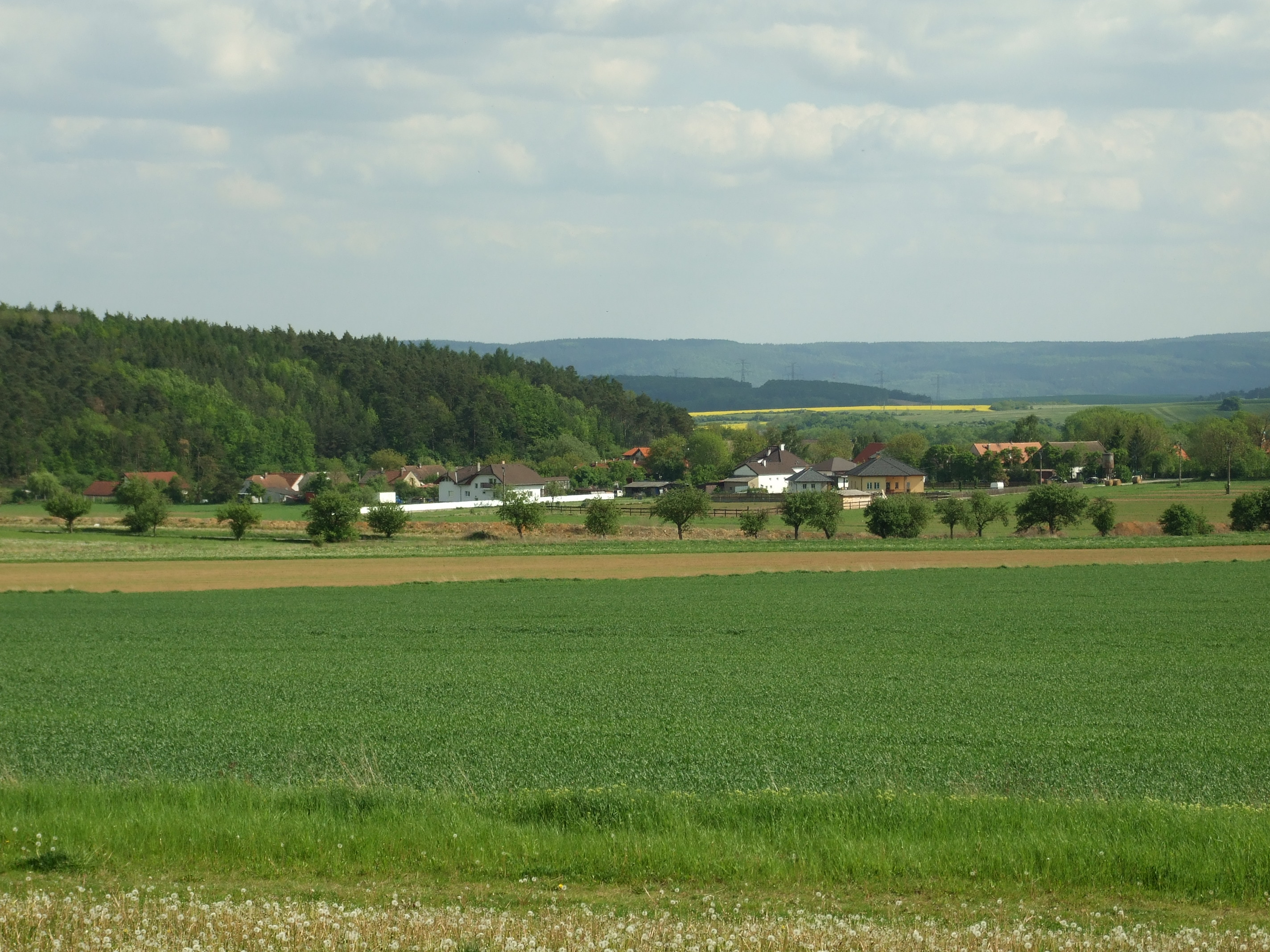 View of Lužce from Vysoký Újezd in Central Bohemian region, CZhelp